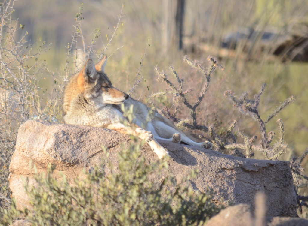 A Coyote sleeping on a rock at the Sonora Desert Museum in Tucson, Arizona